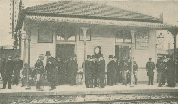 Members of the ministry at the Alcântara Mar Railway Station, in the Cascais Railway, in Portugal, waiting for the arrival of the royal train. This image was published on the Ilustração Portuguesa magazine No. 54, of the 14th November 1904, and scanned by the Hemeroteca Municipal de Lisboa.